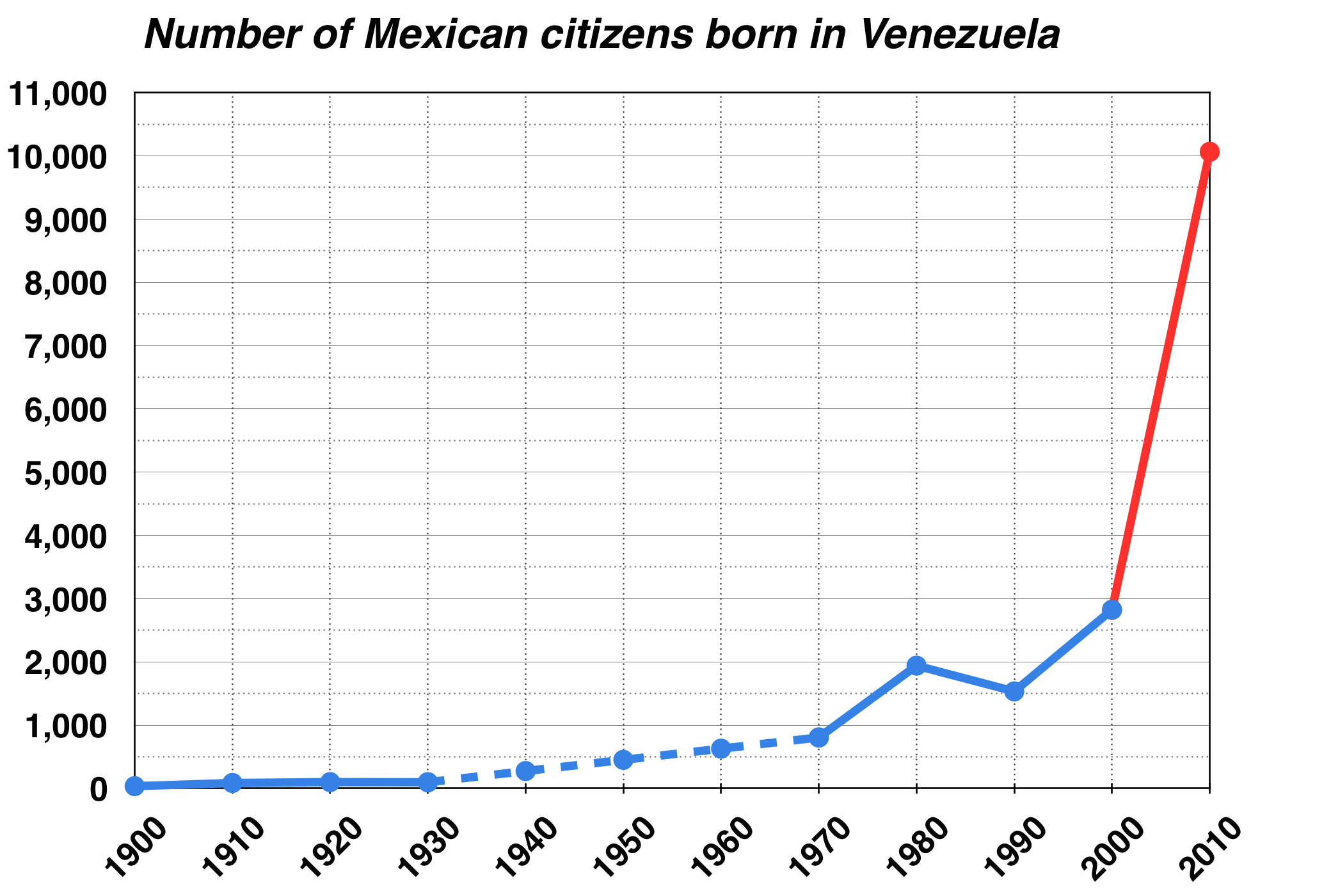 Number of Mexican citizens born in Venezuela. *Broken line represents simulated data. Sources: [1] [2]